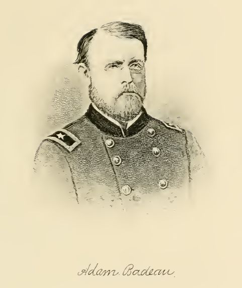 Illustration of Adam Badeau, taken from book, Encyclopedia of Biography of New York, Volume 2',' 1916, by Charles E. Fitch